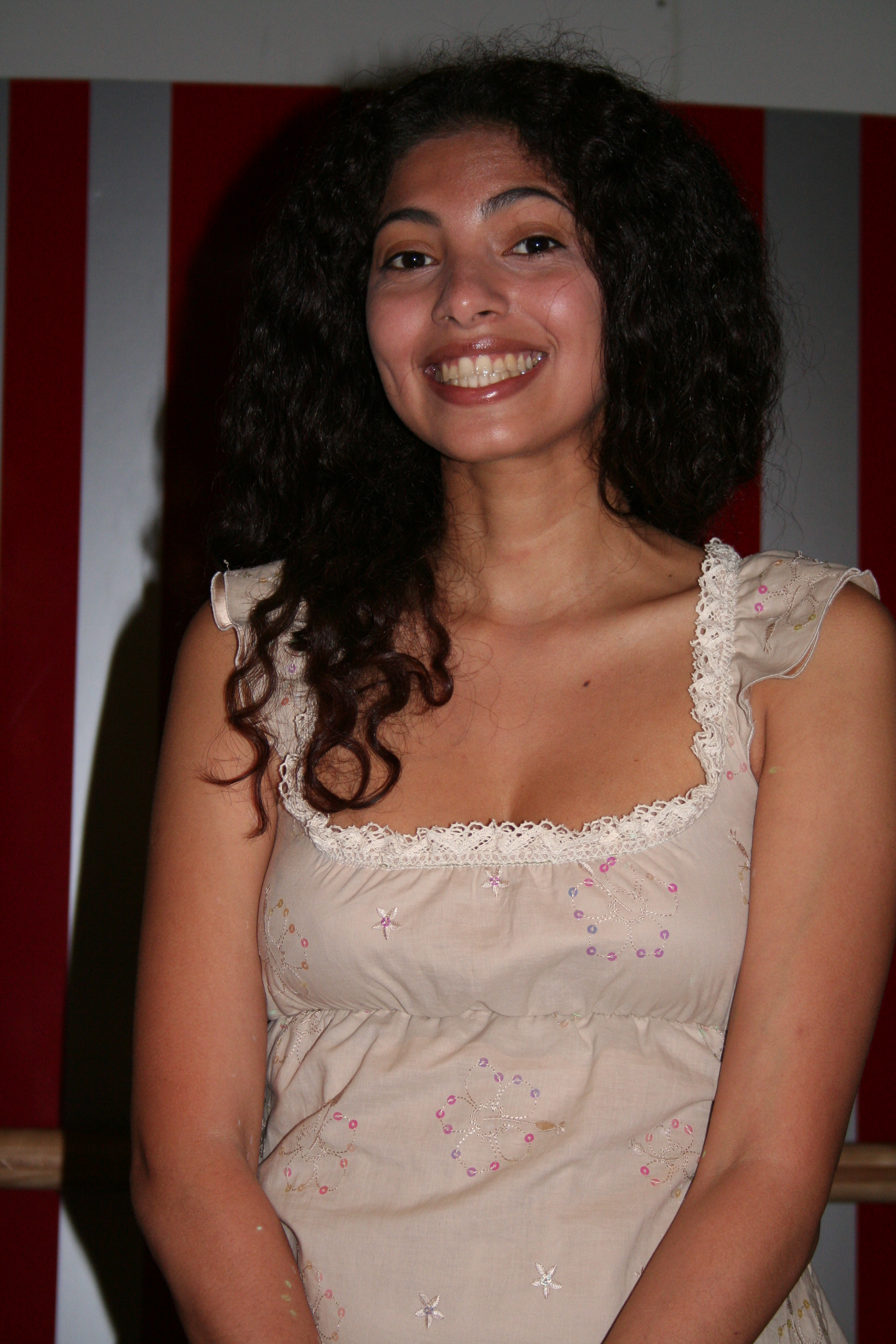 Show-case with Aline de Lima at Fnac des Halles (Paris, France).